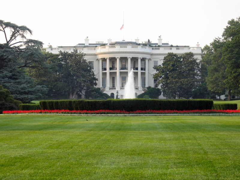 South Portico of the White House.